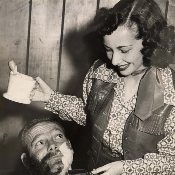 Student having his beard shaved at Frontier Fiesta